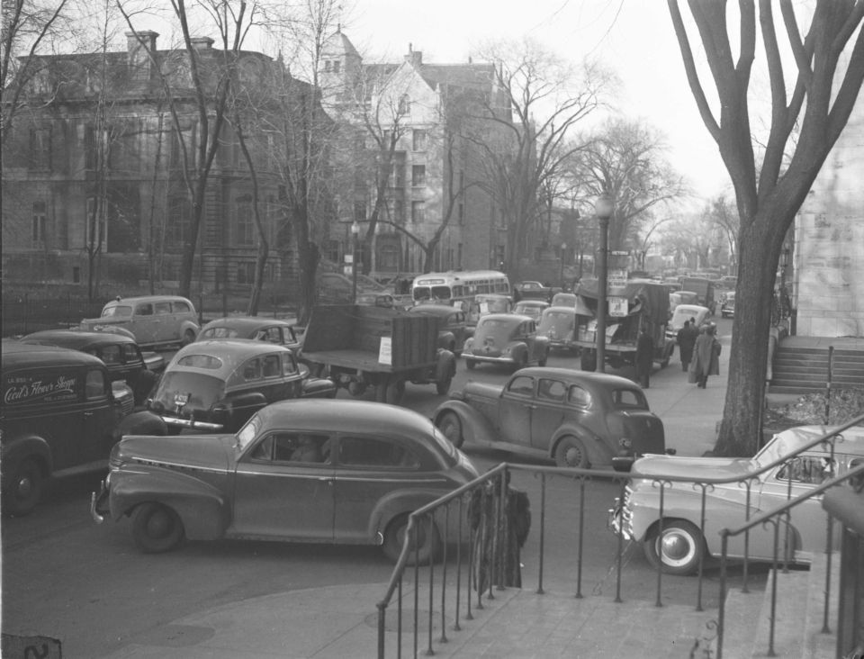 For documentary purposes the original description provided by BAnQ has been retained. Additional descriptive text may be added by Wikimedians with the wiki description = parameter, but please do not modify the other fields.